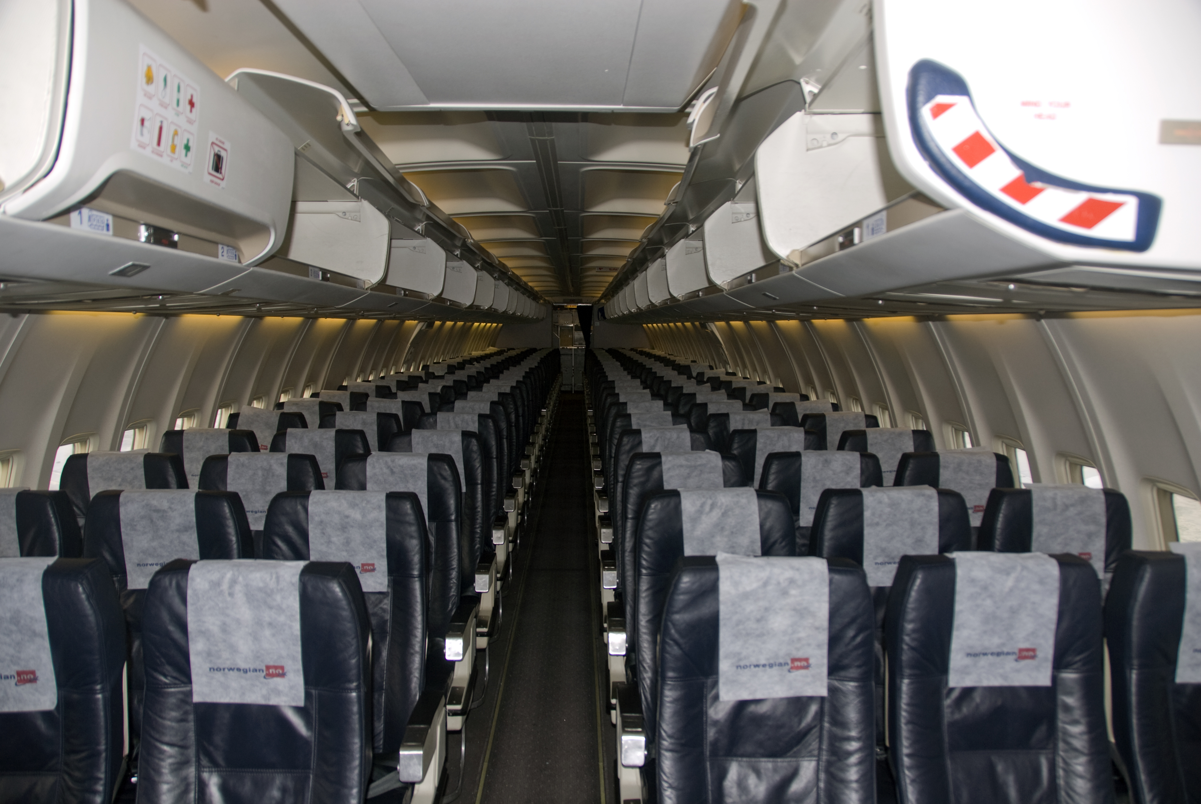 Cabin of Norwegian Air Shuttle Boeing 737-300 LN-KKU